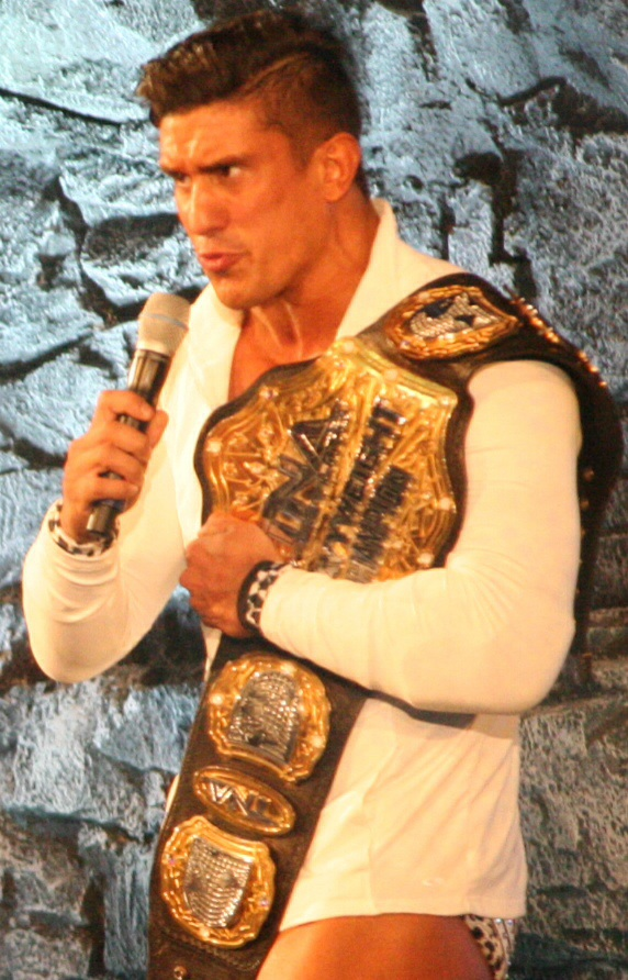 Ethan Carter III